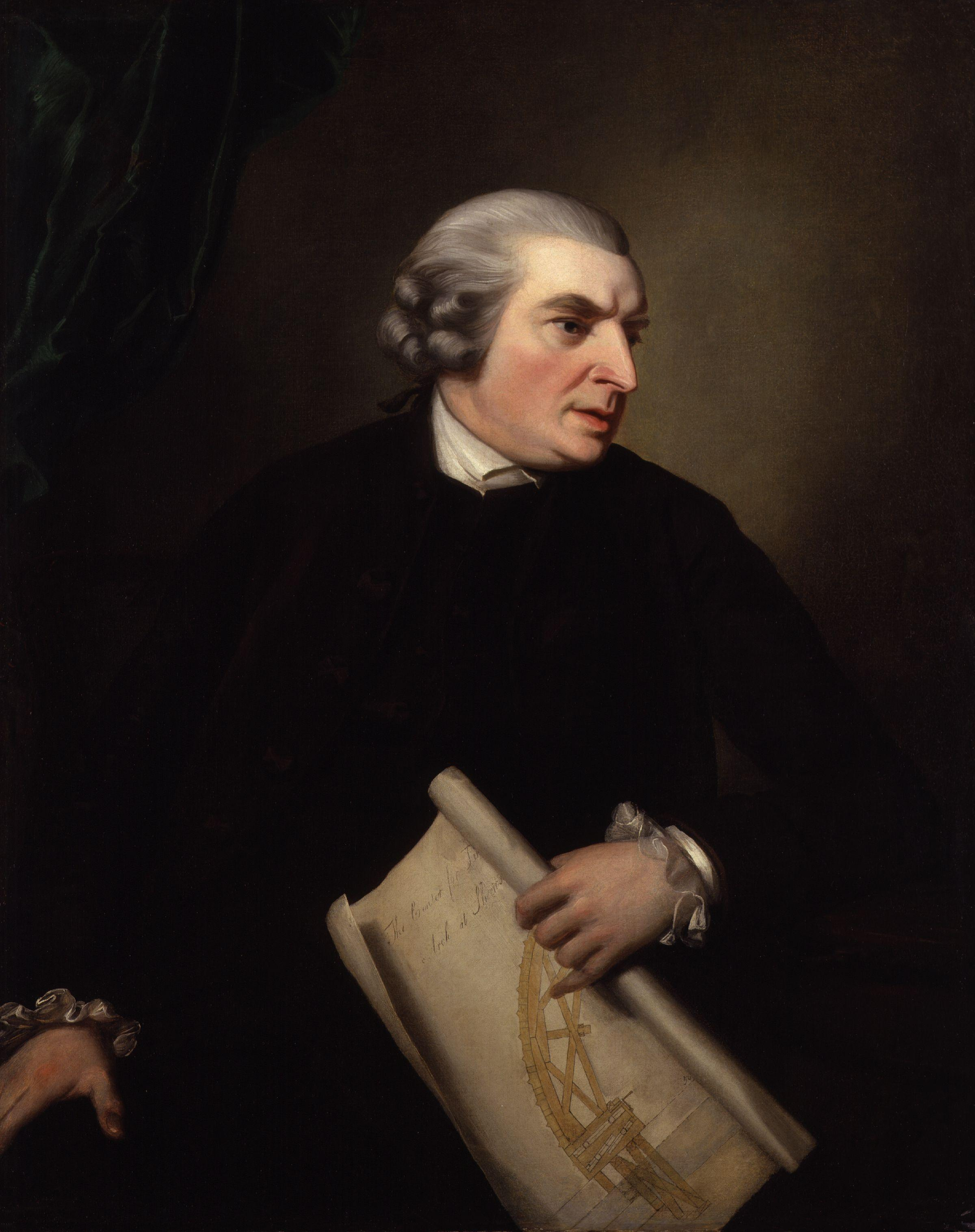 John Gwynn, by unknown artist. All images in this batch are listed as "unknown author" by the NPG, who is diligent in researching authors, and was donated to the NPG before 1939 according to their website.